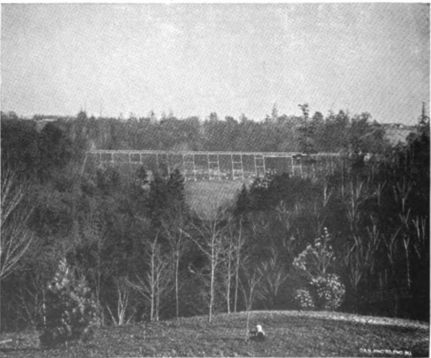 View from Chorley Park, summer Residence of Mr John Hallan, from 'Toronto Old and New...'